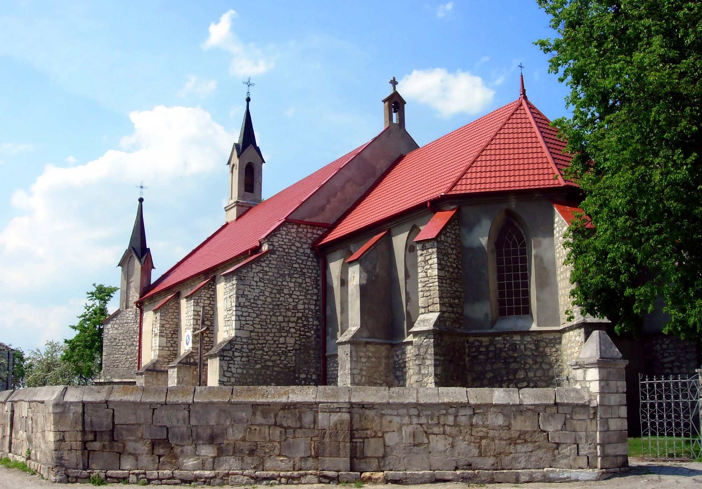 St. Catherine of Alexandria church in Piasek Wielki, Poland, built in 1340, rebuilt in the 19th century